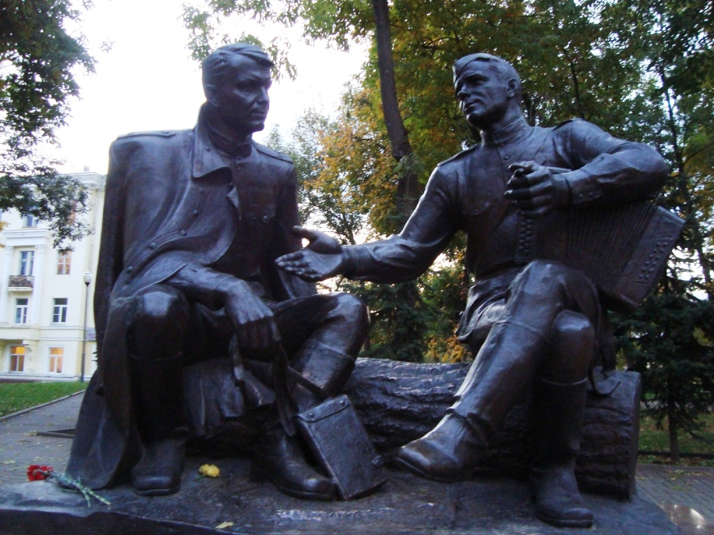 Tvardovsky Monument Smolensk